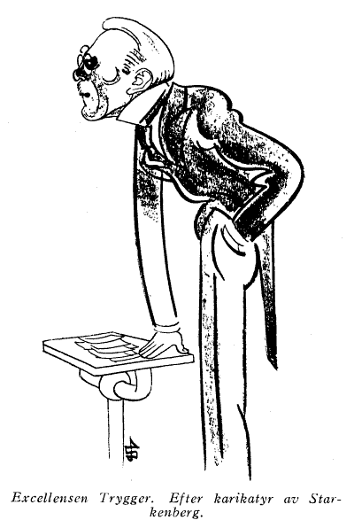 Ernst Trygger, drawing made by Ivar Starkenberg.